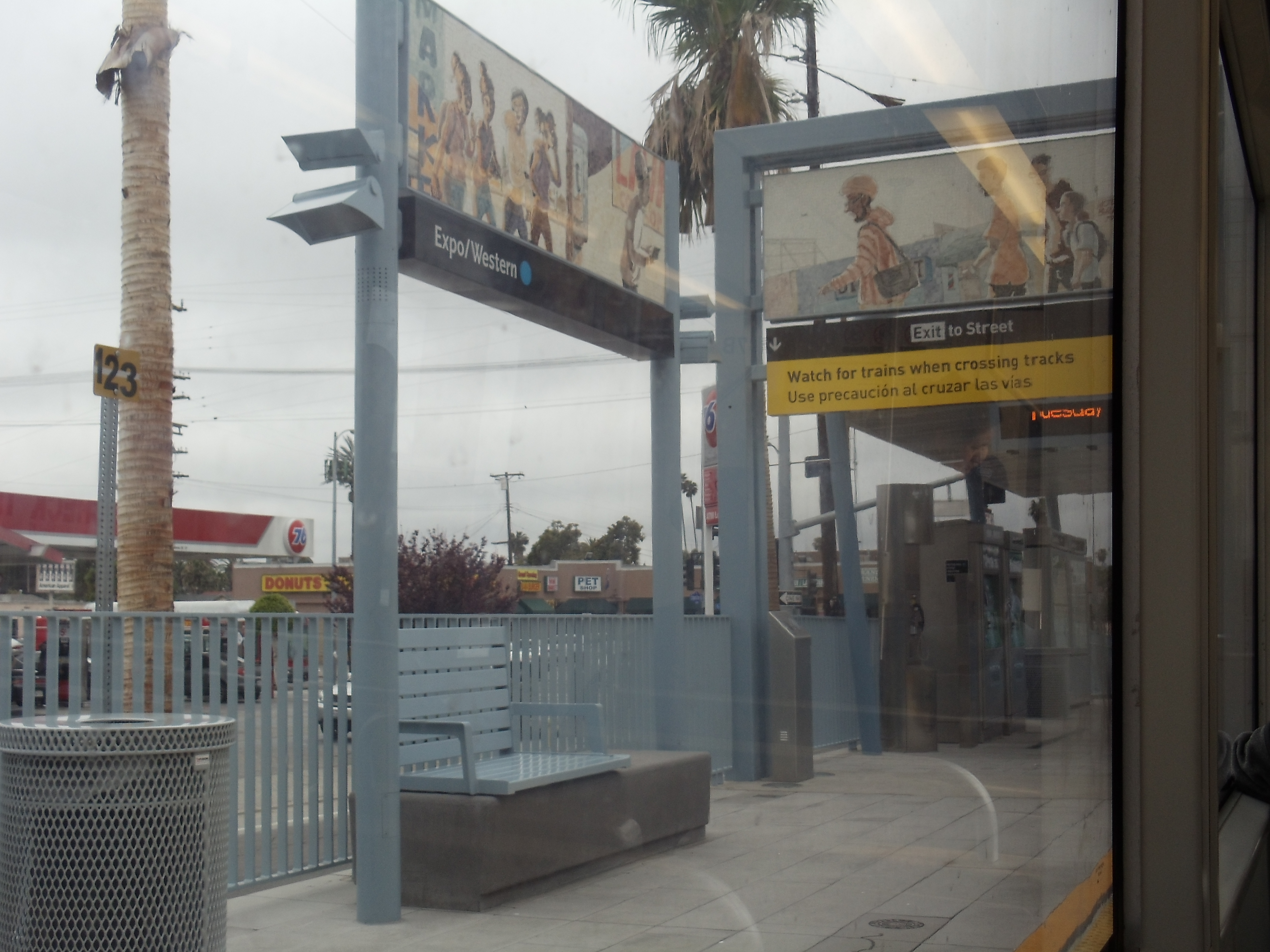 Station art on the eastbound platform of the Expo/Western Station.